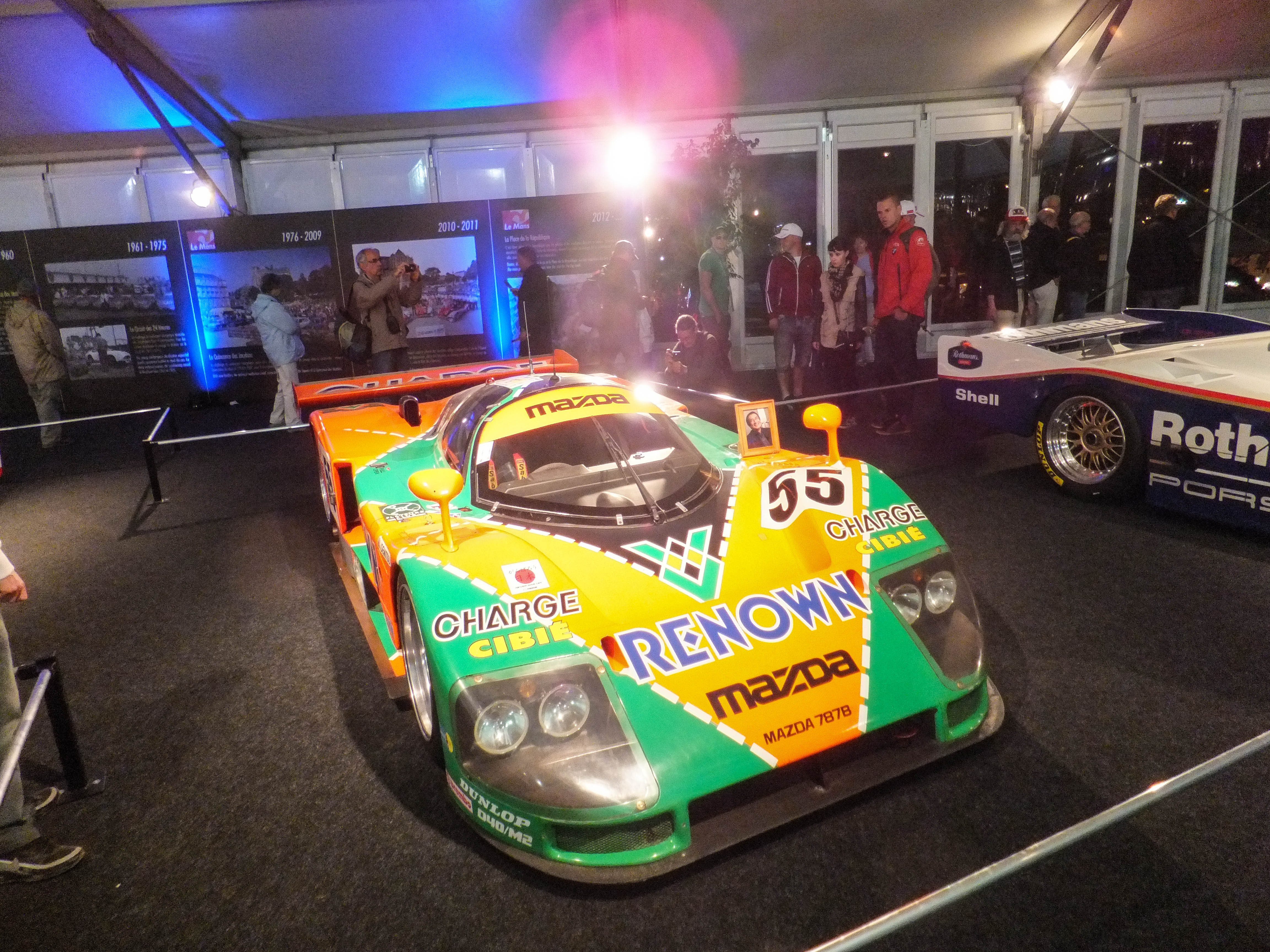 Le Mans 2013 (67 of 631)